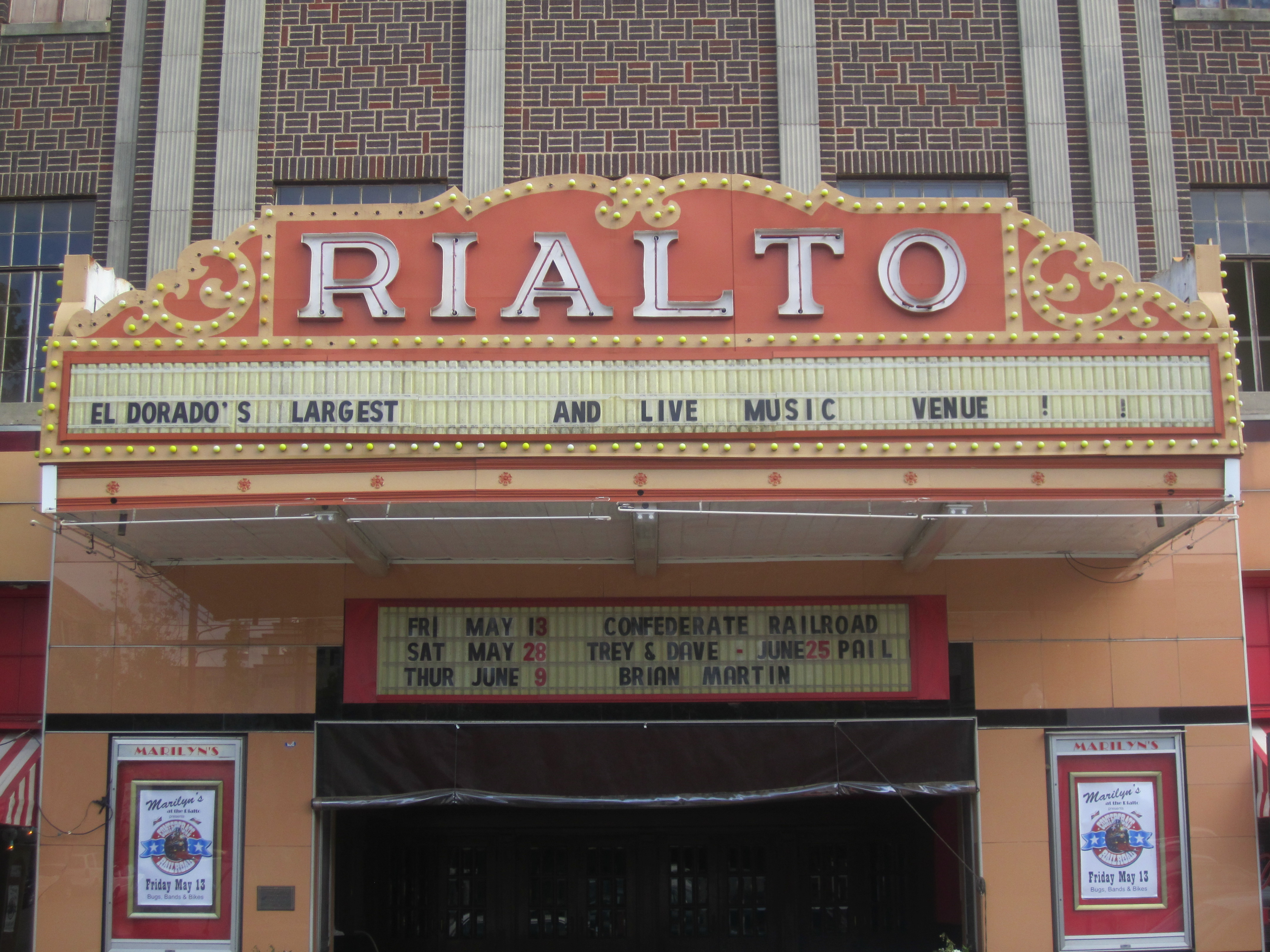 I took photo of Rialto Theater in El Dorado, AR, with Canon camera.